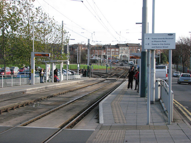 Waiting at Wilkinson Street tram stop